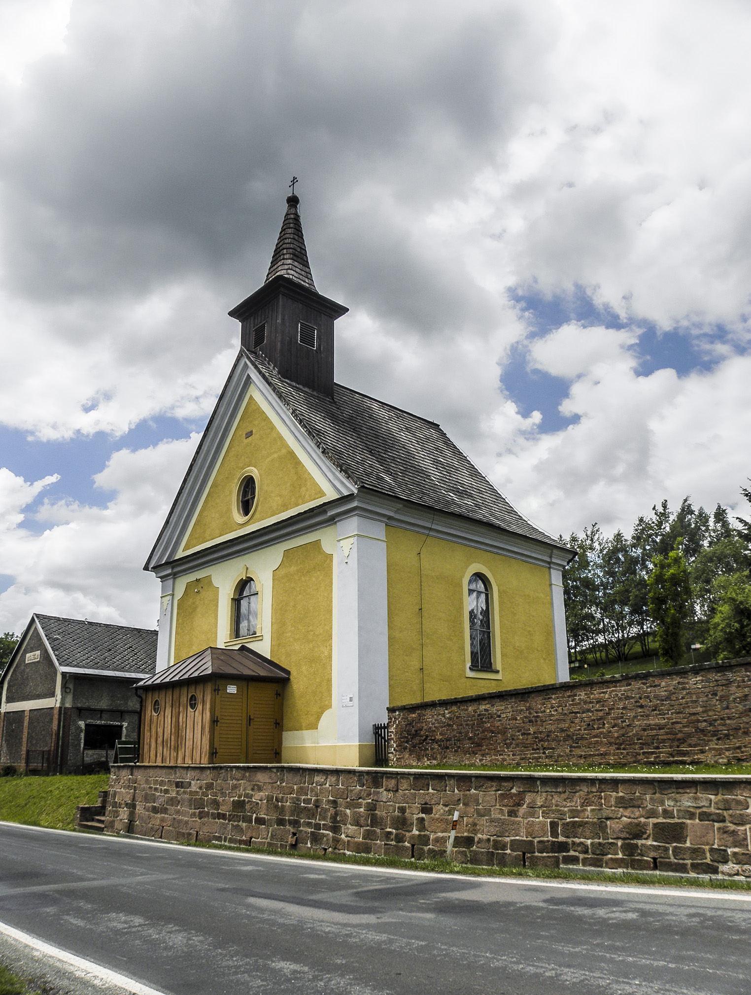 Chapel of Saint Thecla - east view across the road